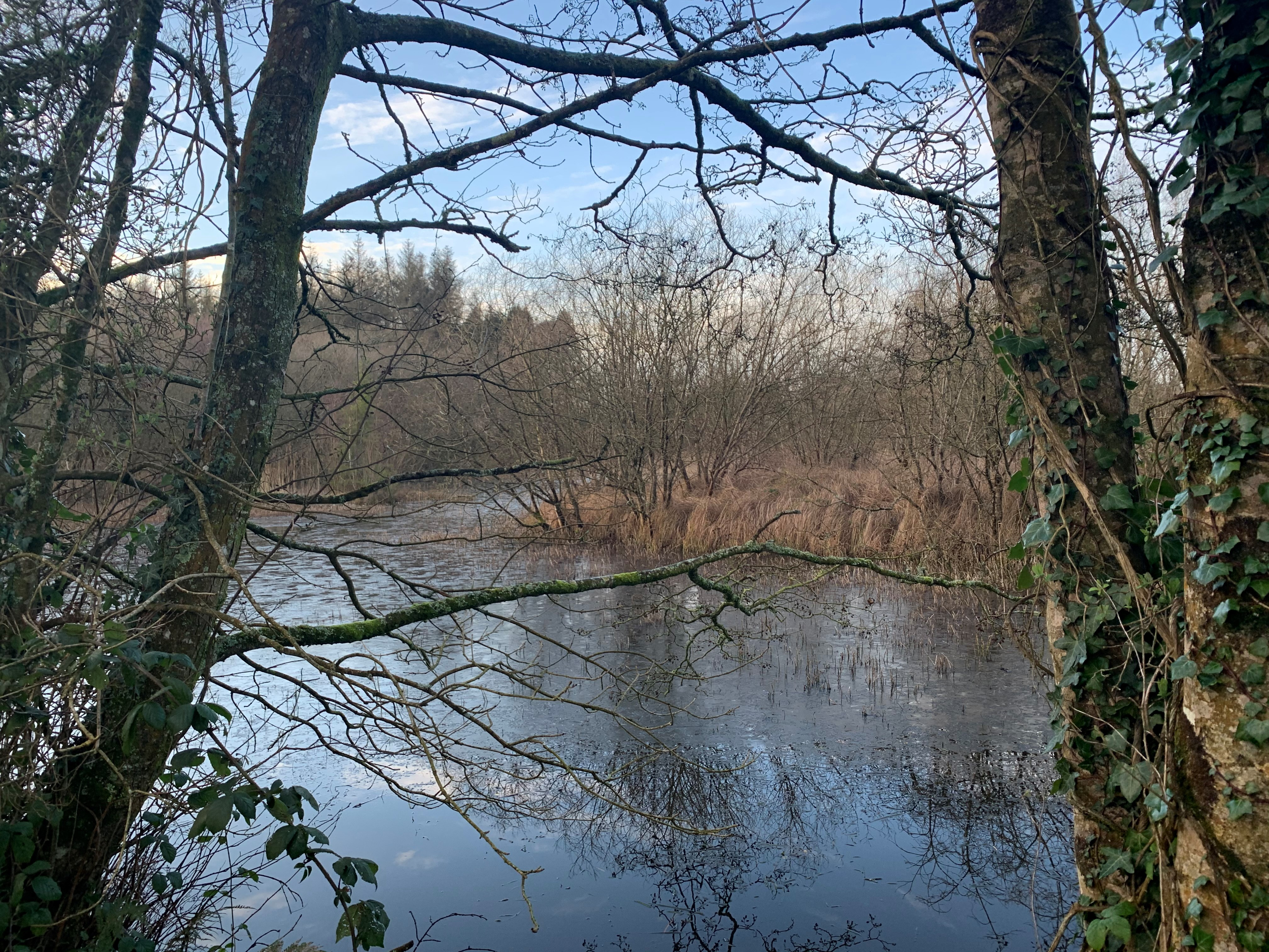 Marl Bog, Dundrum, CountyTipperary